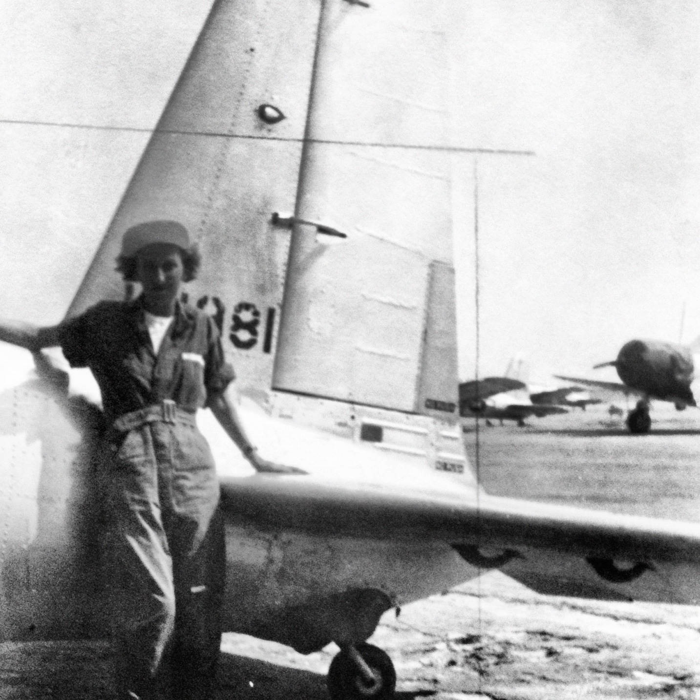 Pearl Laska Chamberlain as WASP trainee, taken around 1944. In 1946 she was first woman to solo a single-engine airplane (a 1939 Piper J4) up the Alaska Highway. The FAA recognized her achievements as a pioneer Alaska aviator in 2006.